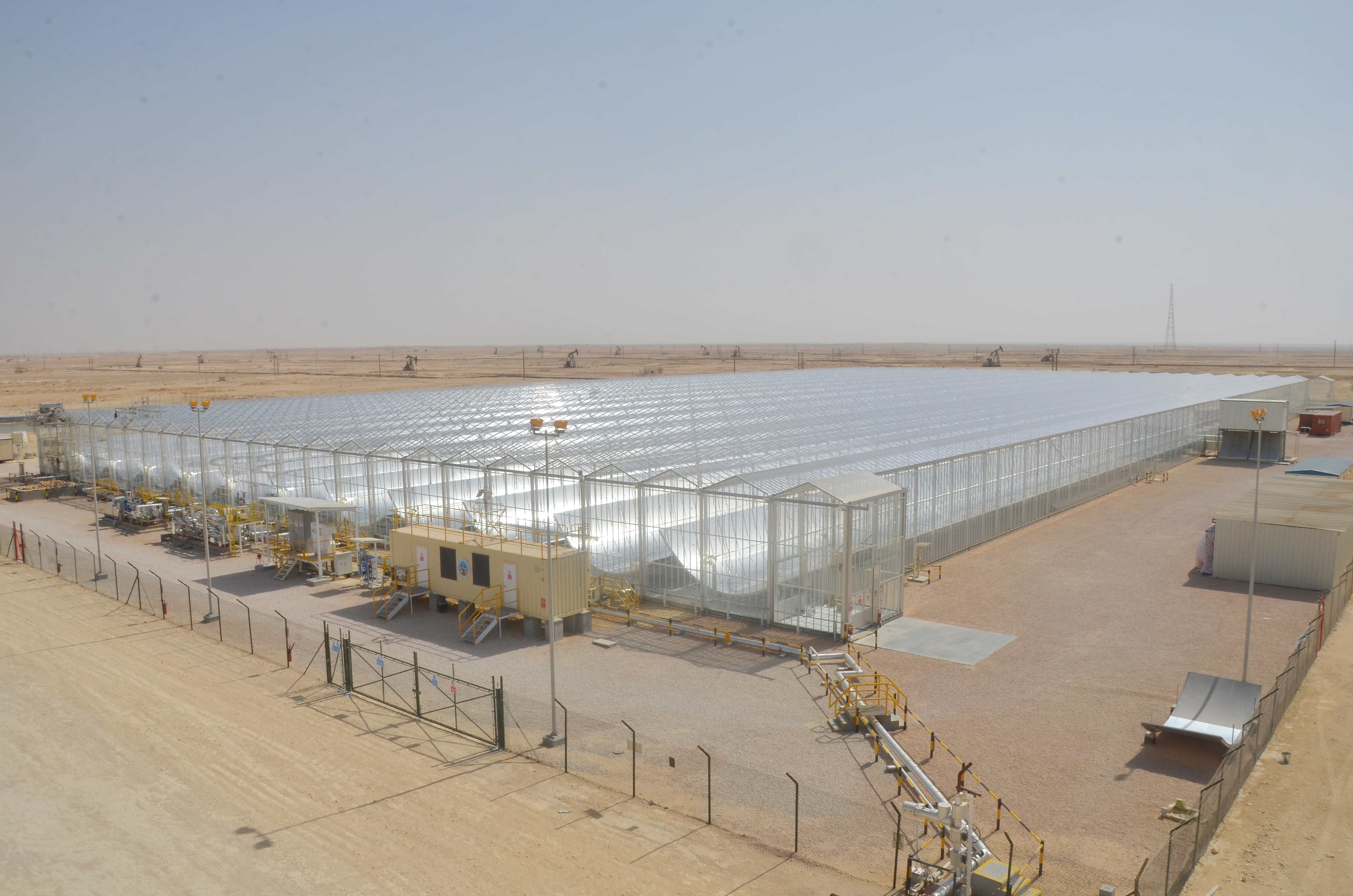 A depiction of the GlassPoint solar EOR project, commissioned by Petroleum Development Oman and developed by GlassPoint Solar, in the oilfields of Amal, Oman.